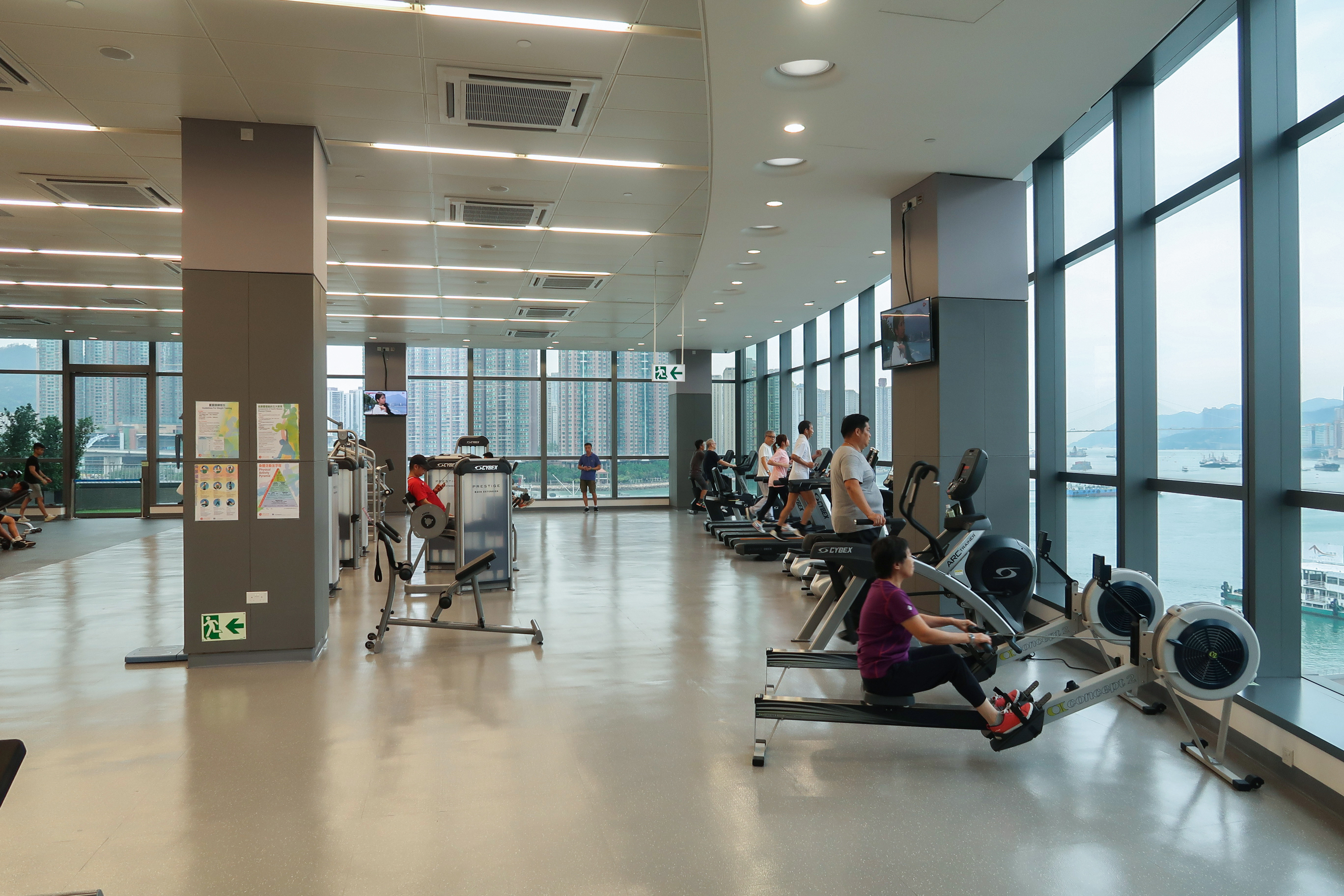 Tsuen Wan Sports Centre Fitness Room